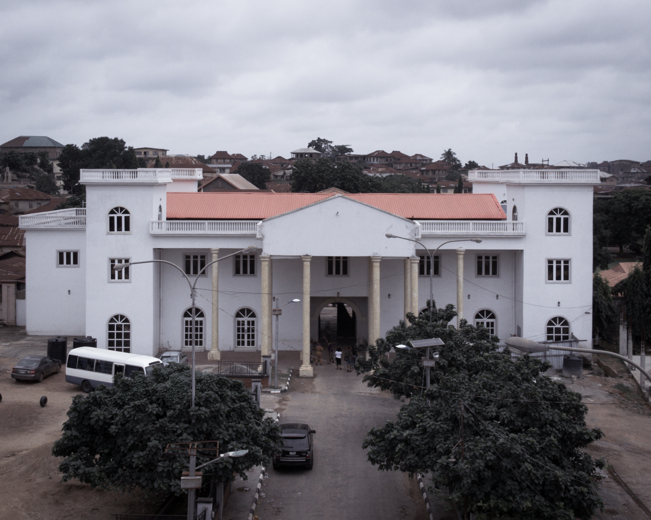 Alake's Palace, Abeokuta, Ogun